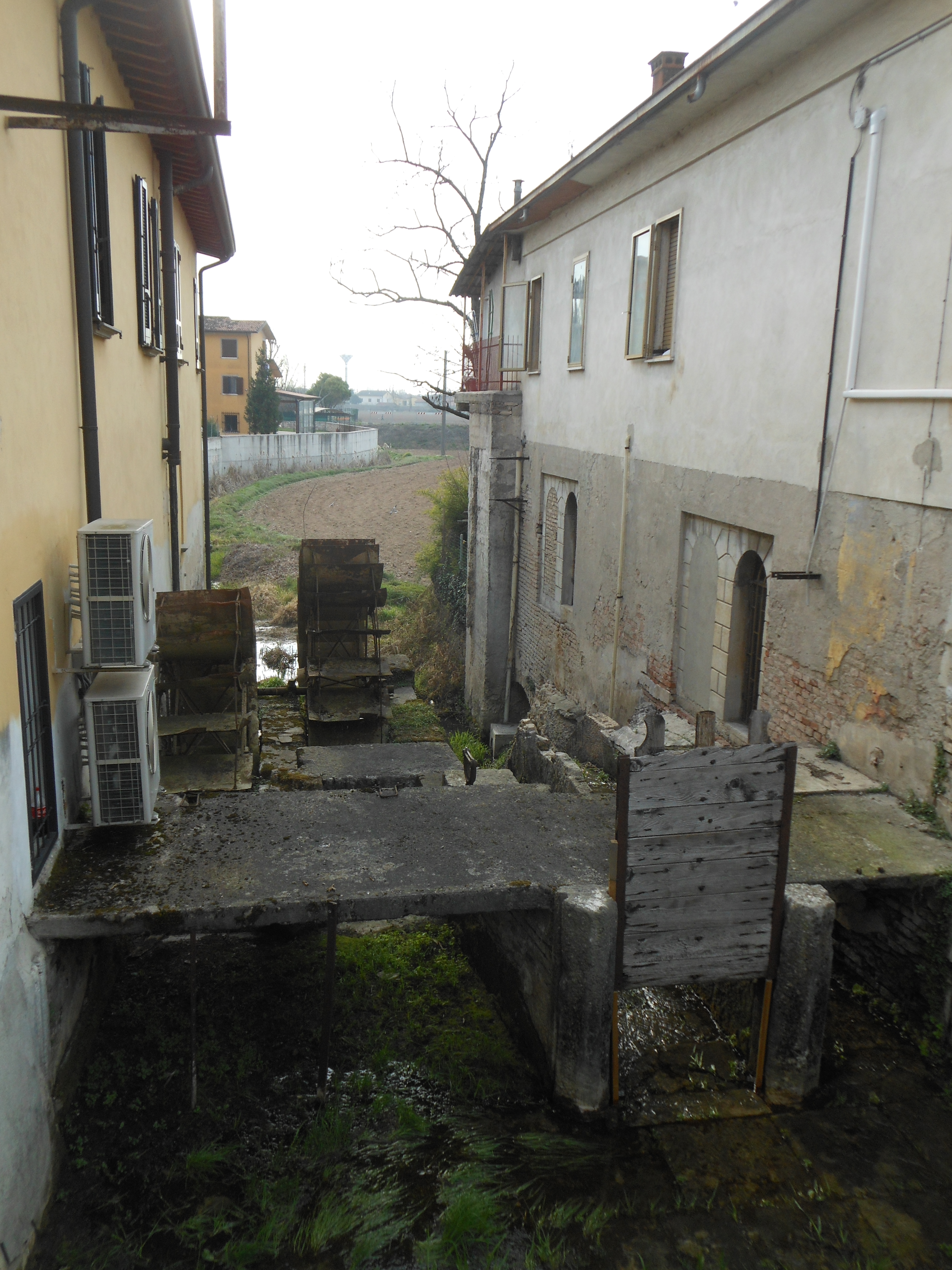 mulini 04